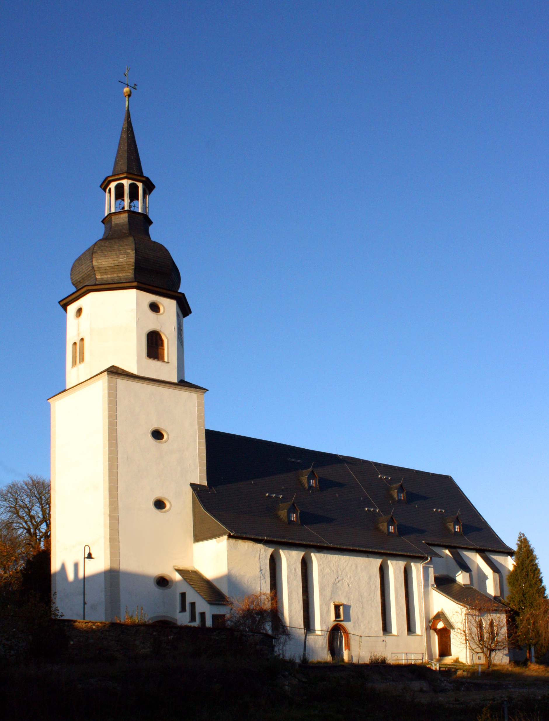 Church in Tanna near Schleiz/Thuringia